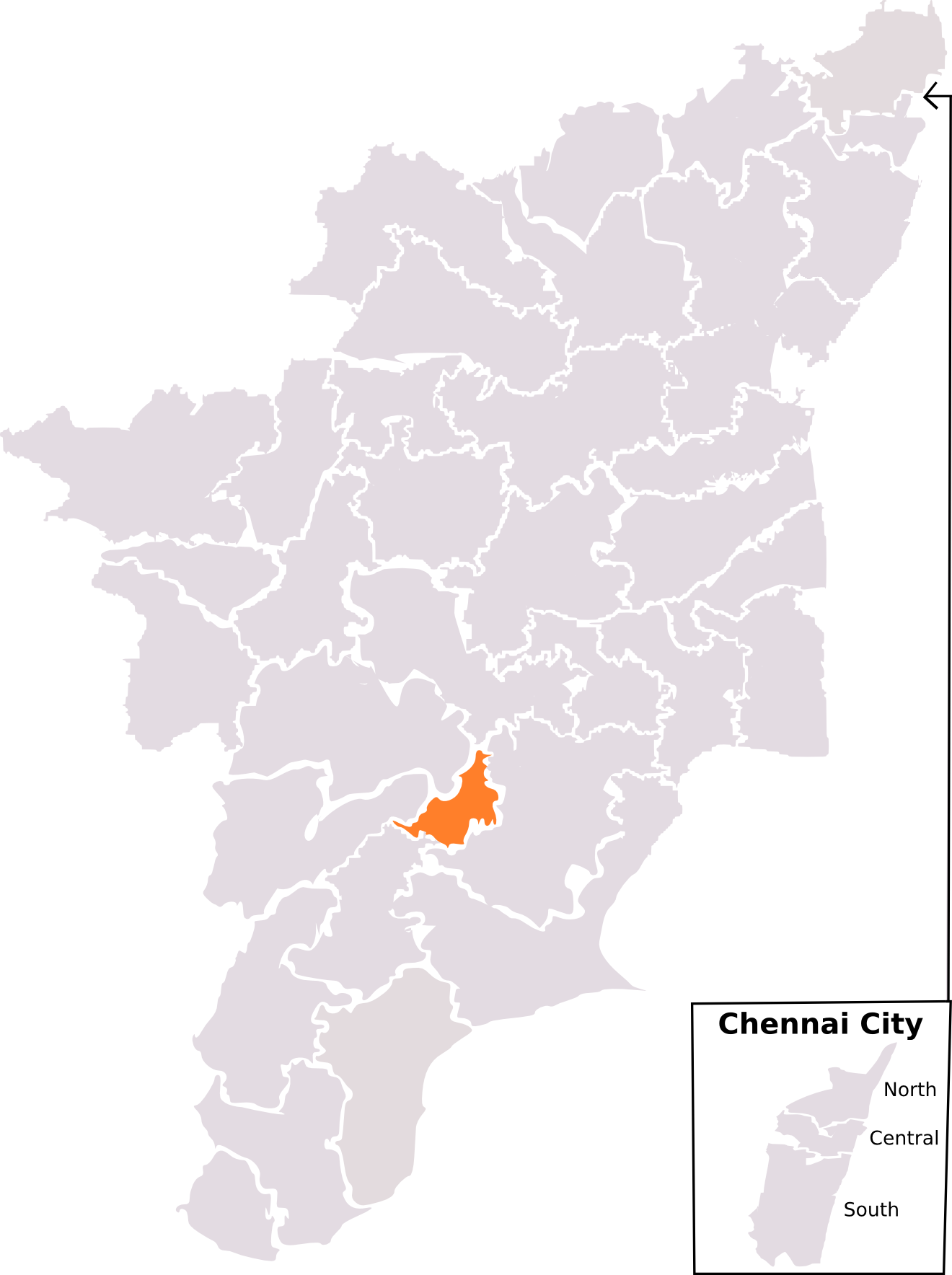 Lok Sabha Election map for Tamil Nadu. Map is based on ECI drawn map. Results are based on ECI website.